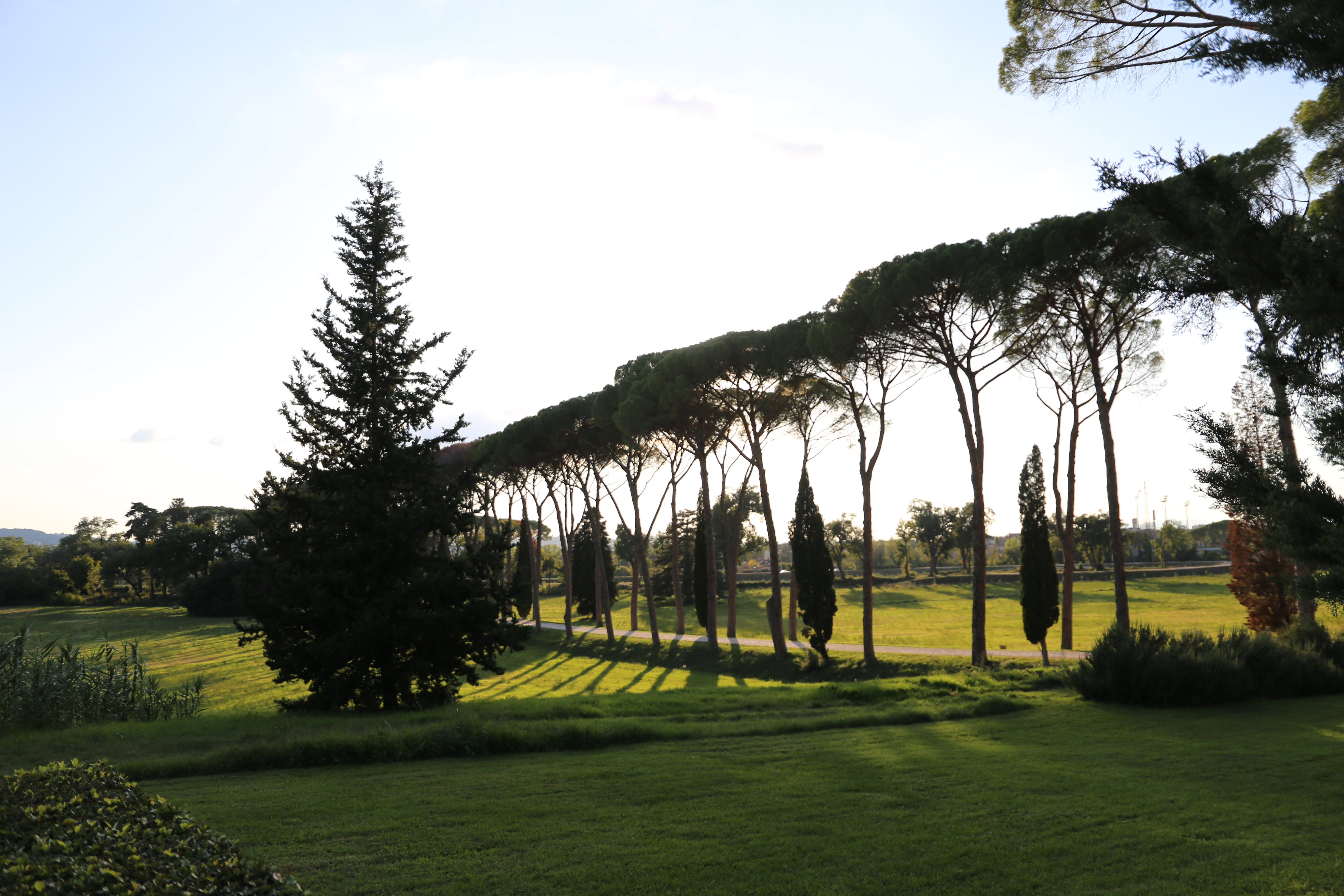 Villa Il Querceto